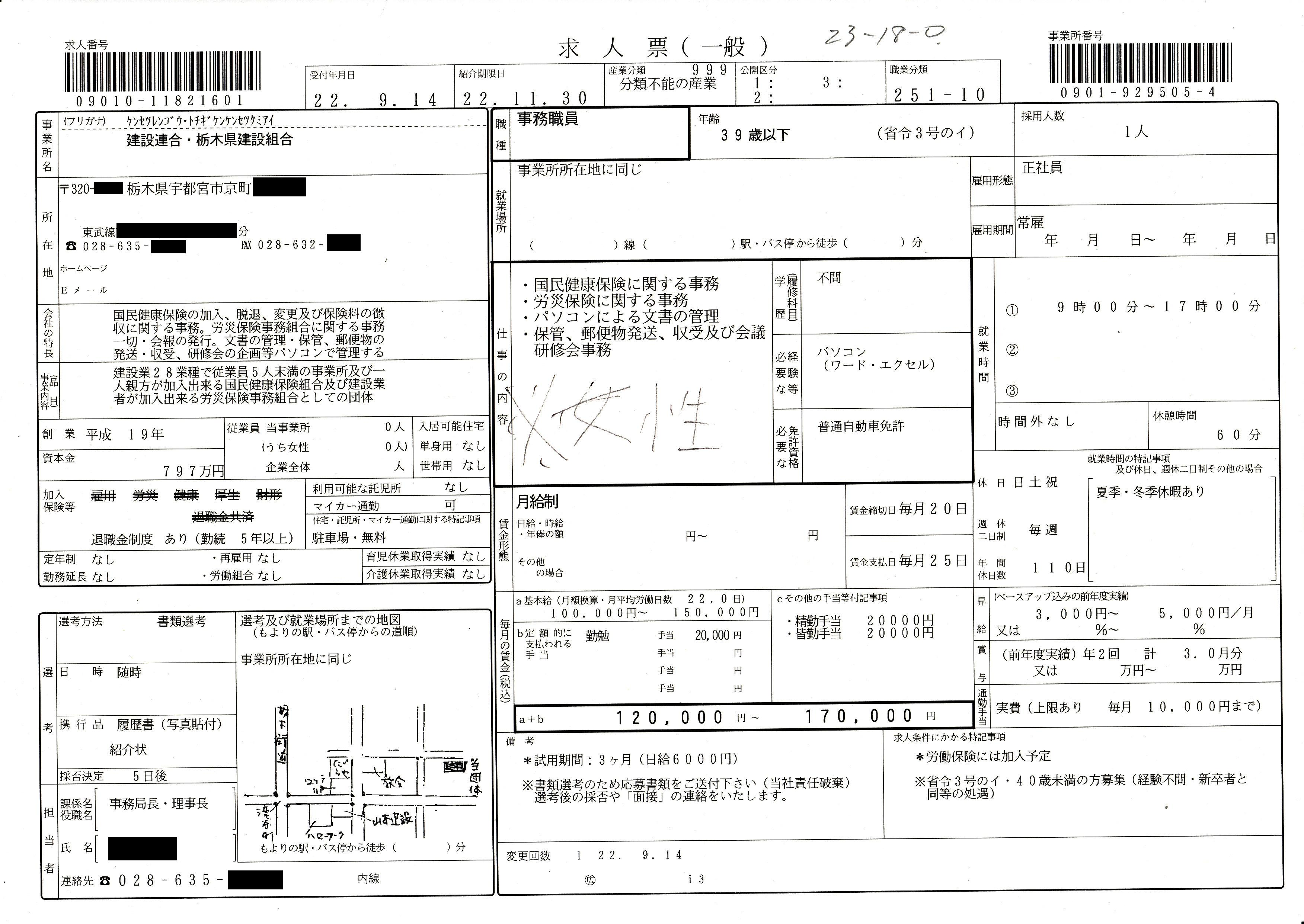 The Job-opening information on Illegal female limitation - The Japan Construction Workers' Council, Tochigi Prefecture construction union, the Office personnel (Reject it the man at the stage at the window), the arrangement number is 09010-11821601, acceptance with the Utsunomiya Public employment security office in Tochigi.